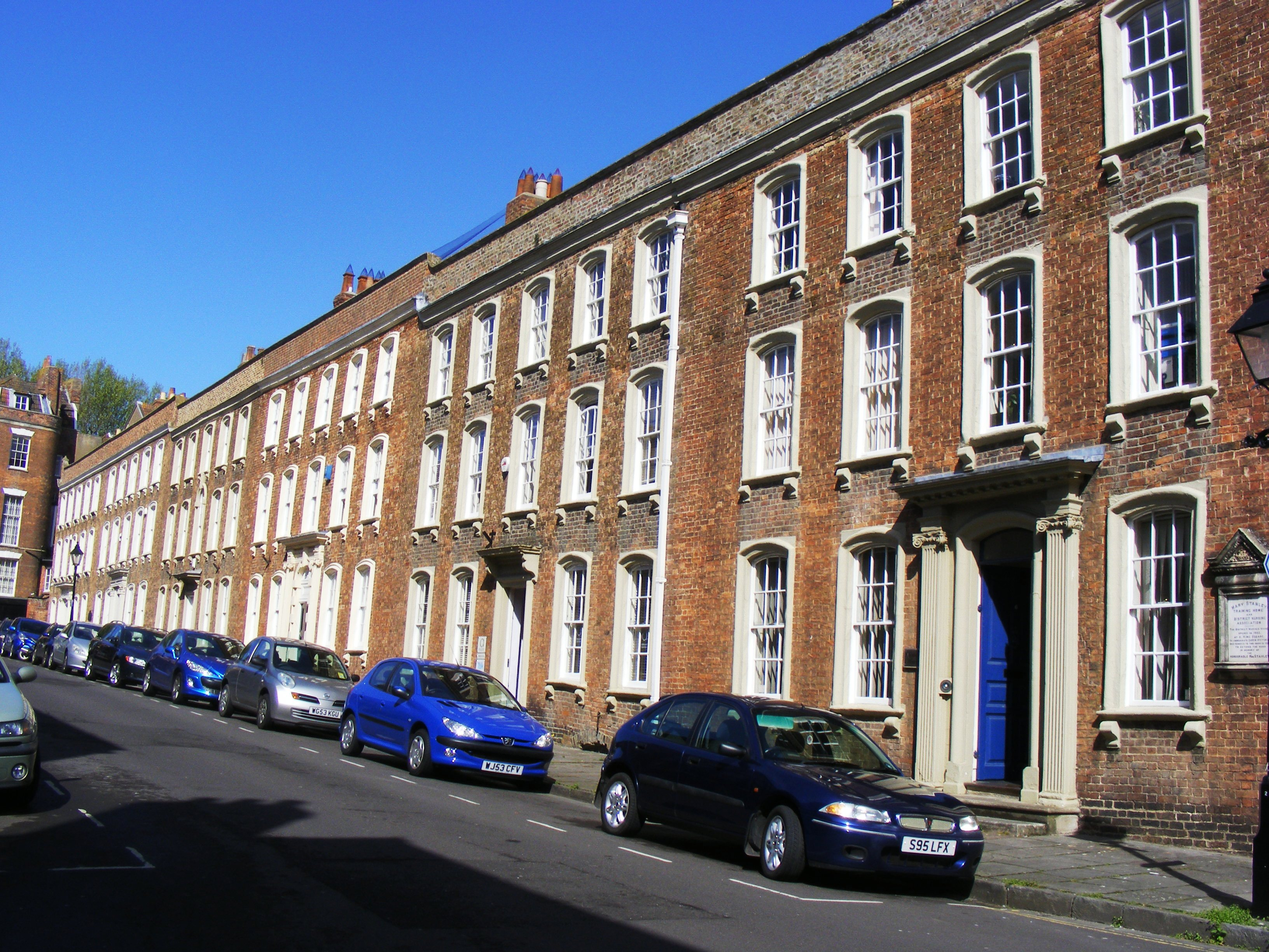 Castle Street, Bridgwater, Somerset North Side